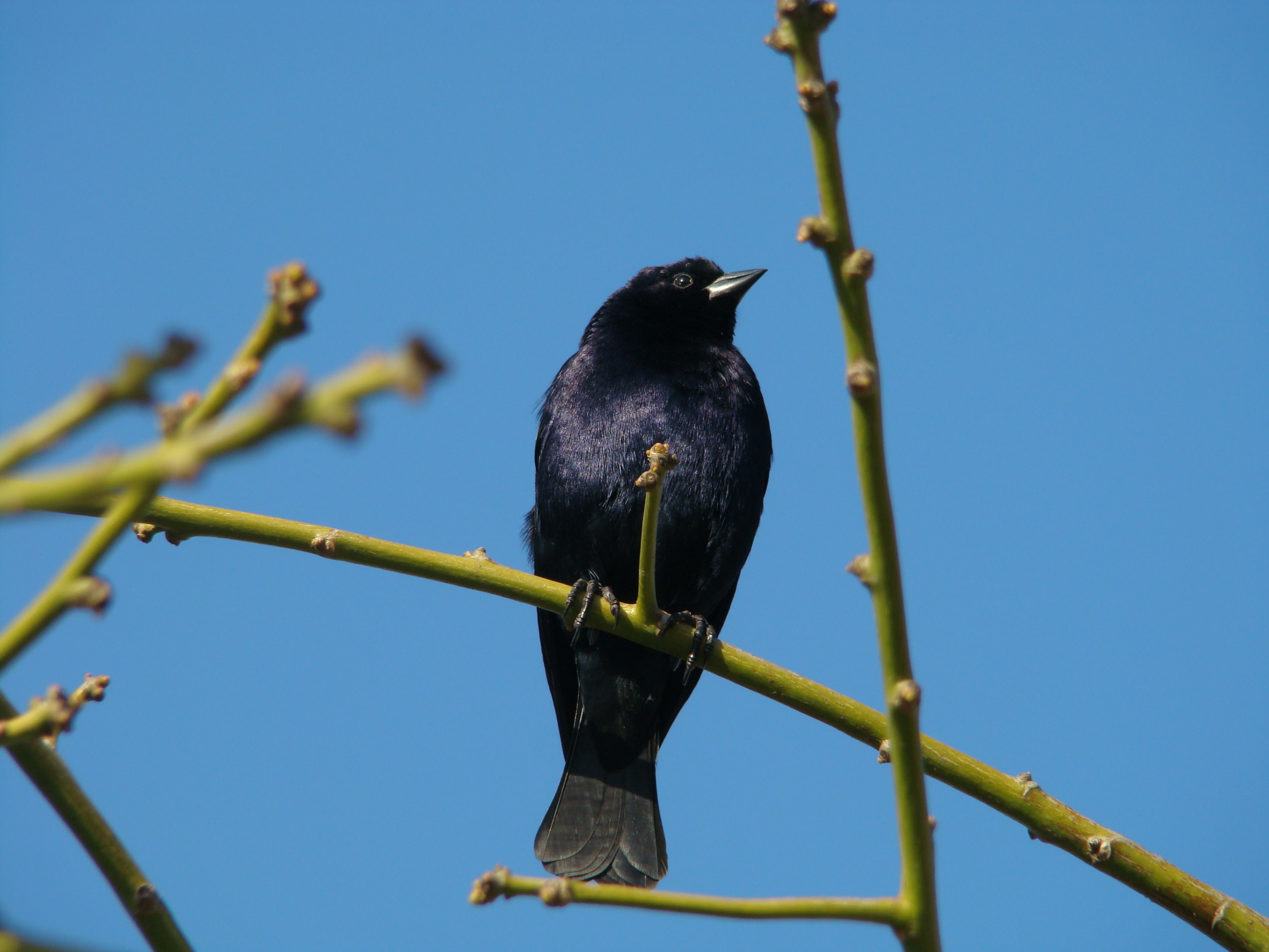 Molothrus bonariensis